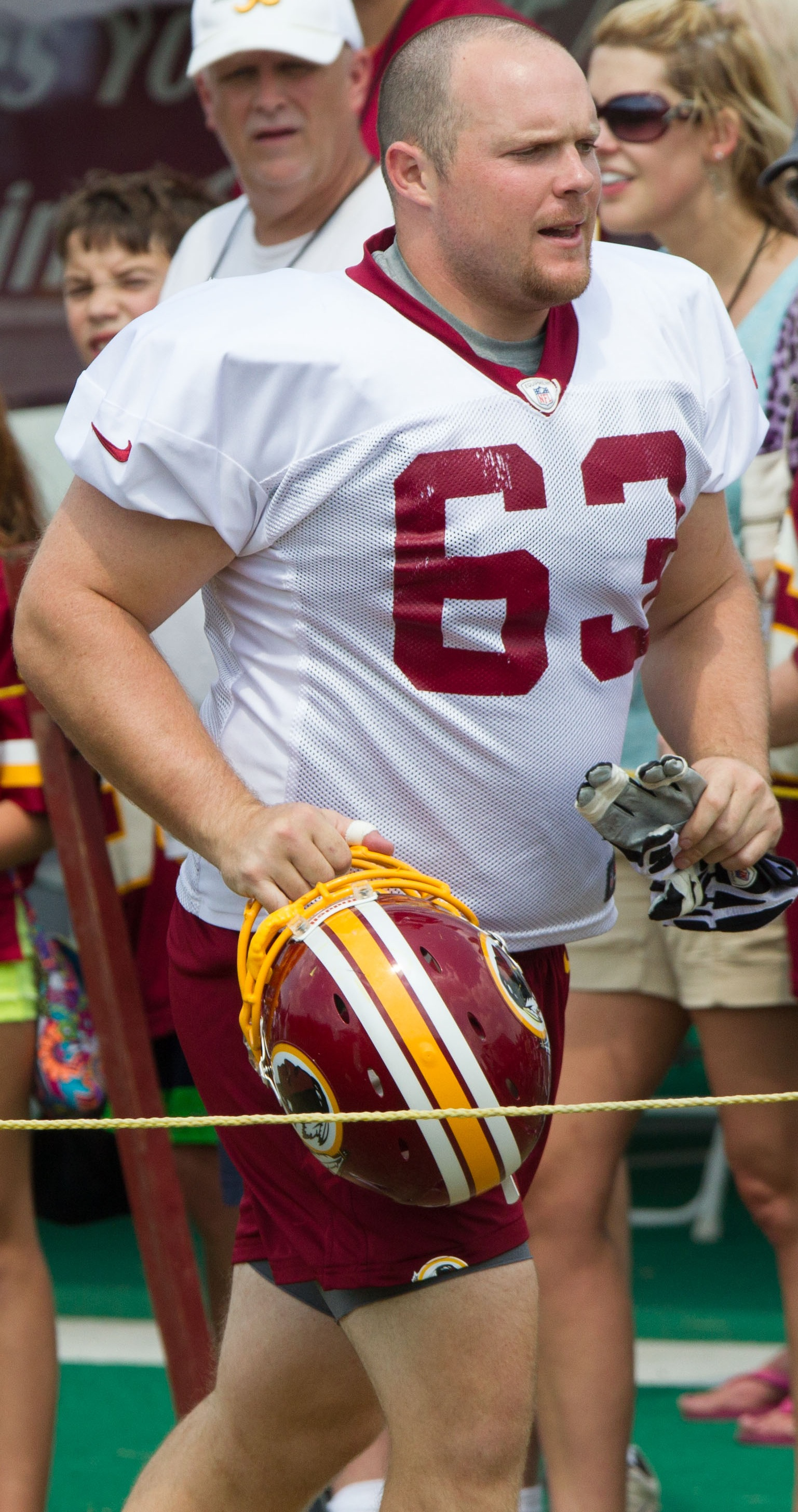 Will Montgomery at Washington Redskins Training Camp August 2, 2012